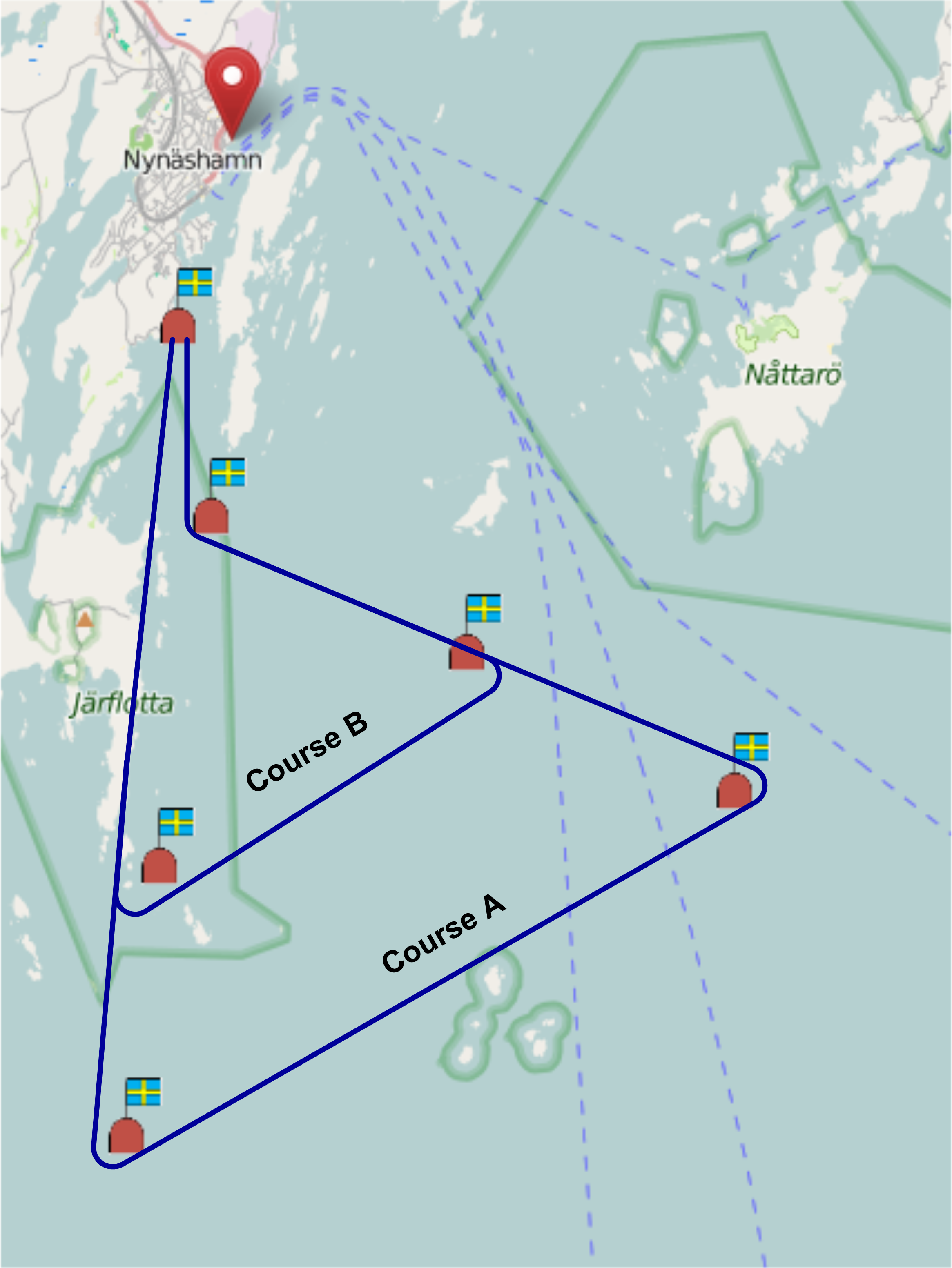 Courses used at the 1912 Olympic sailing regattas This map may be incomplete, and may contain errors. Don't rely solely on it for navigation.